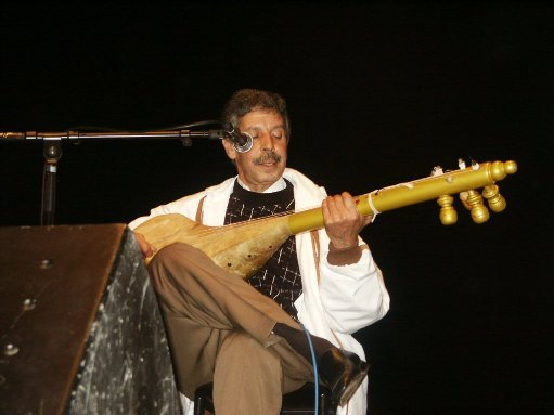 mohamed rouicha with his guitar (loutar)